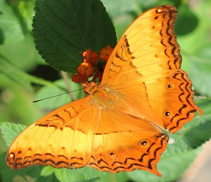 cruiser male from dandeli